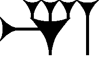 Cuneiform sign INANA, used to write the names of the goddess Inanna (=Akkadian Ishtar), Akkadian sign mùš